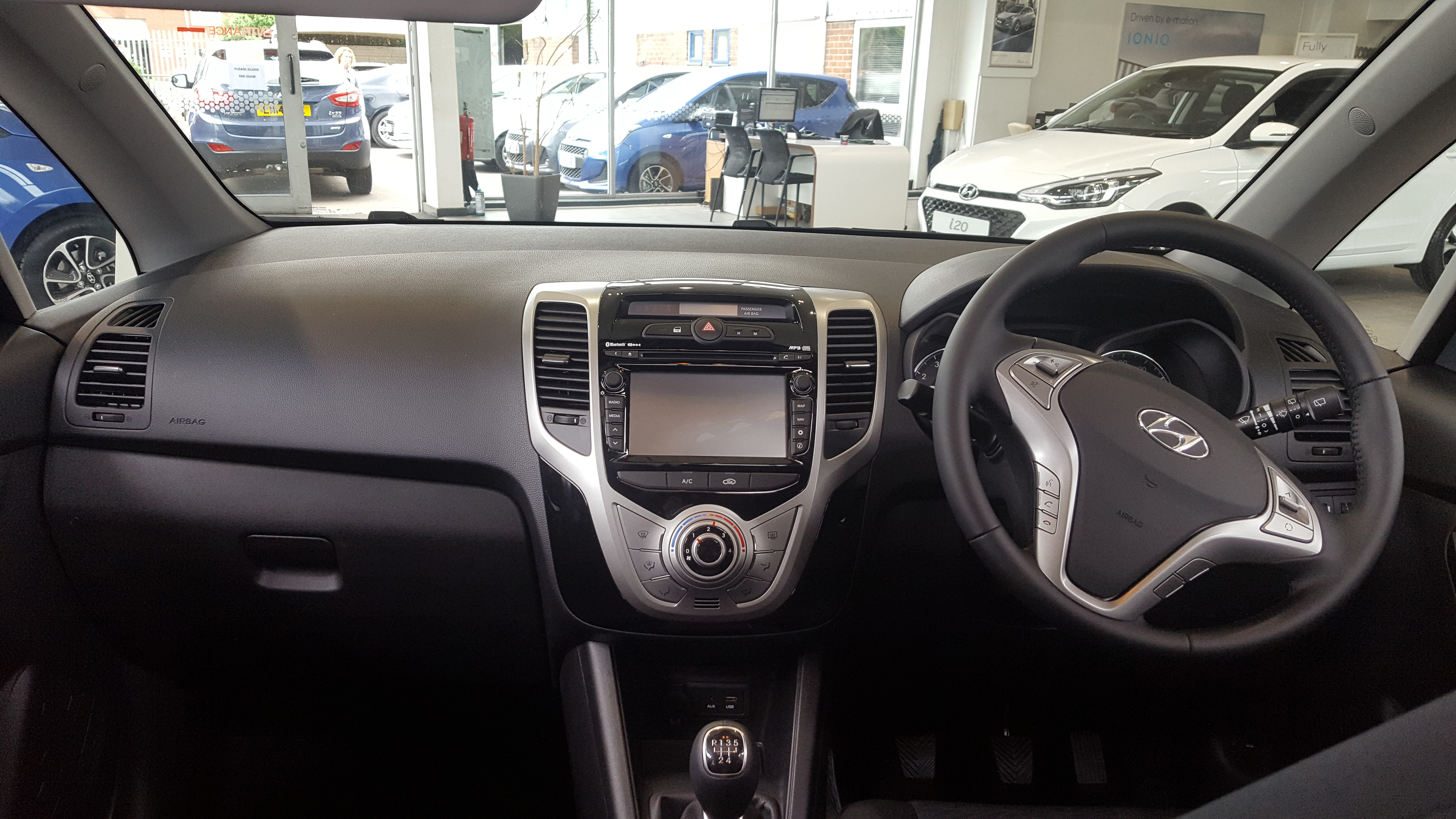 2018 Hyundai ix20 Interior Taken in Warwick